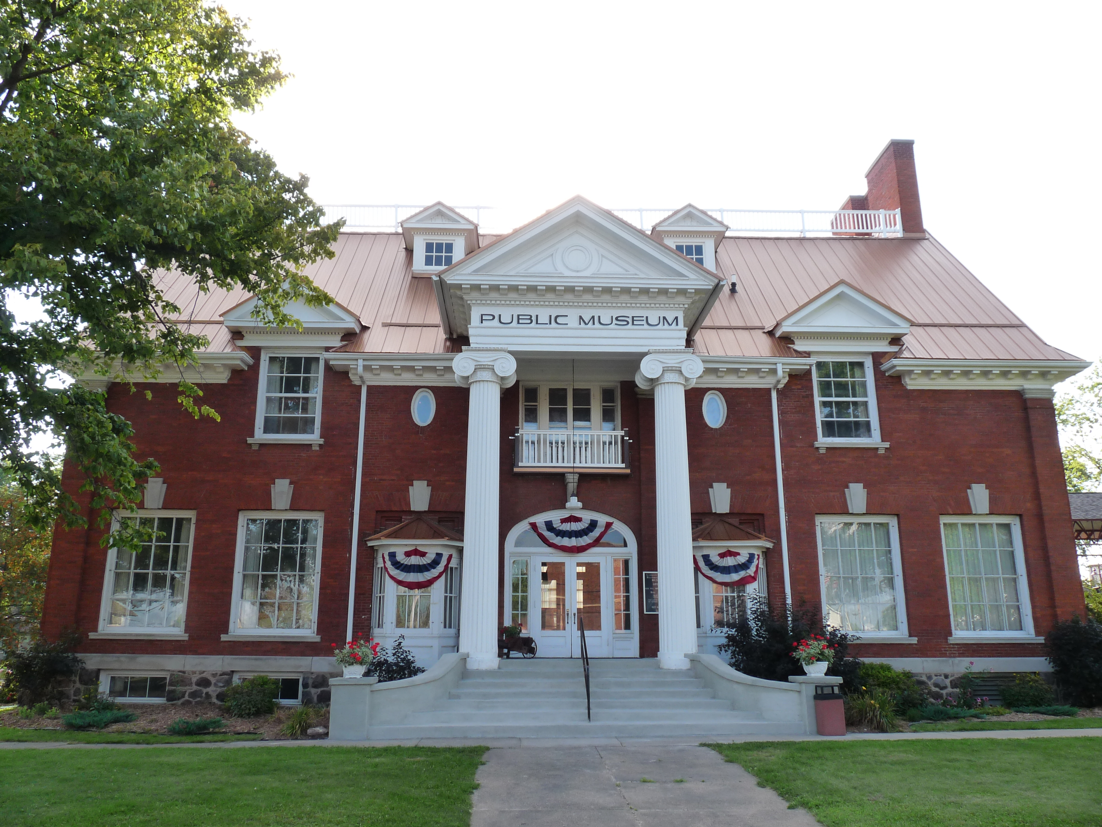 Public museum in Antigo, Wisconsin. (I assume from the NRHP listing that this was previously the public library. Please correct if I'm wrong.)